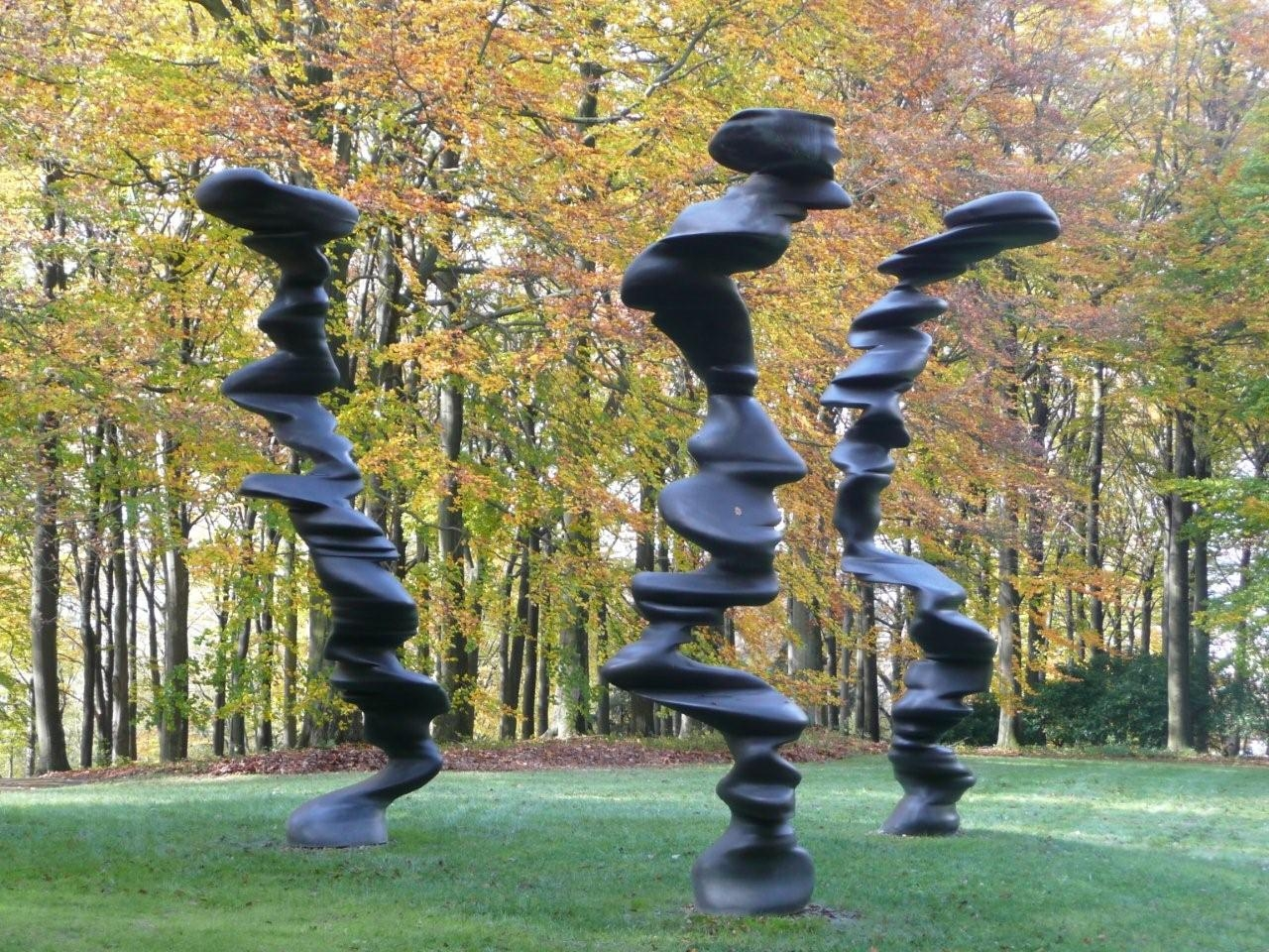 3 sculptures Untitled (2007 and 2008) by Tony Cragg in Skulpturenpark Waldfrieden in Wuppertal/Germany